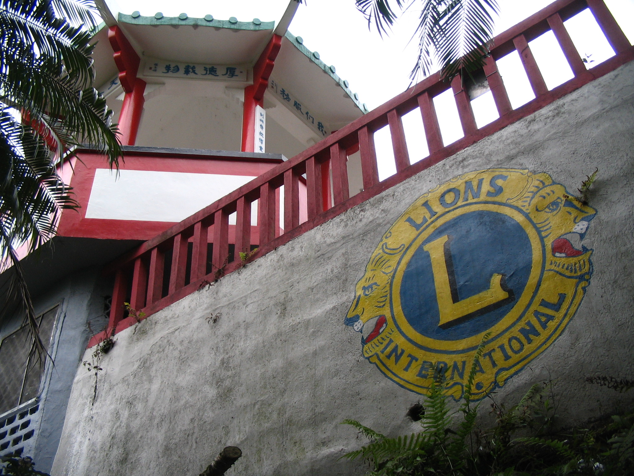 Lions Pavilion at Sha Tin Pass